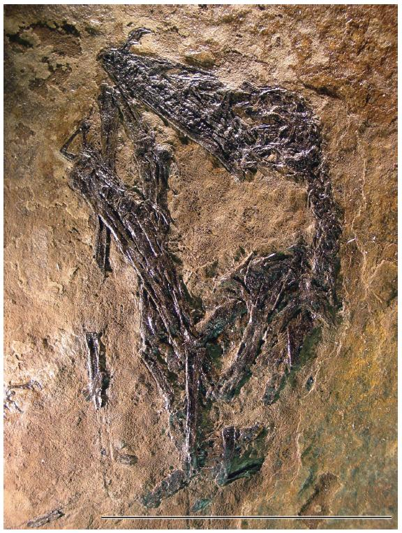 Fig. 3 - Bergamodactylus wildi (MPUM 6009), main part of the skeleton. Scale bar: 50 mm.